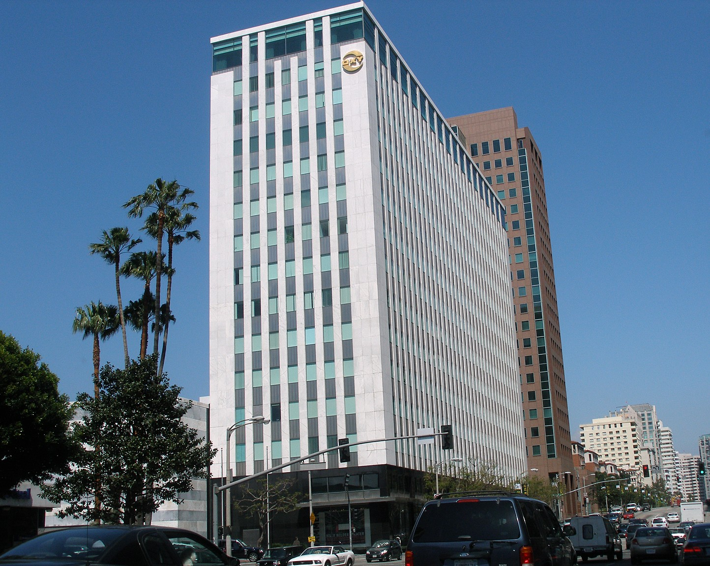 The headquarters of Occidental Petroleum Corporation in Westwood.